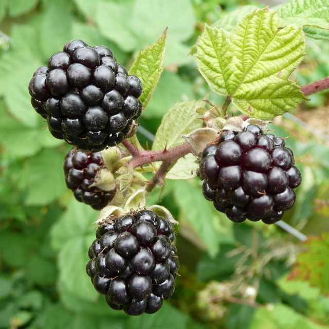 Cultivated Blackberry, Rubus fruticosus. A good crop in summer 2009.